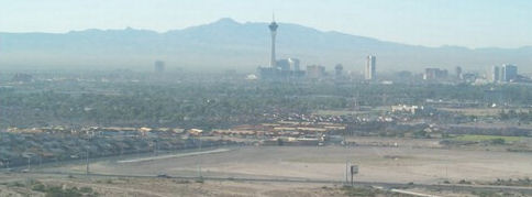 Las Vegas, as seen from North Las Vegas.